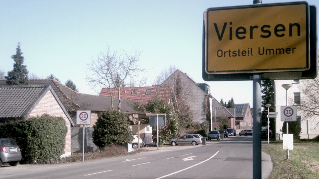 Ummerstraße, Ummer, Viersen, Germany